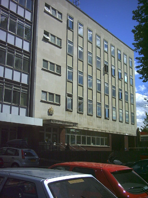 Balham Youth Court, Balham High Road (A24).